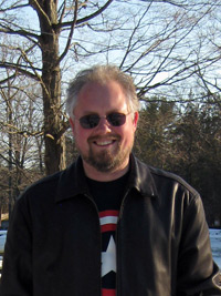 Crowd Fusion CEO Brian Alvey